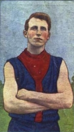 Photo of Bill Allen taken in 1920